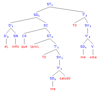 An example of spanish setence using Time Phrase (ST) and Determiner Phrase (SD).